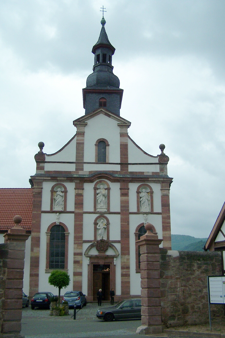 The Portal of the catholic church in Dermbach/Rhön.